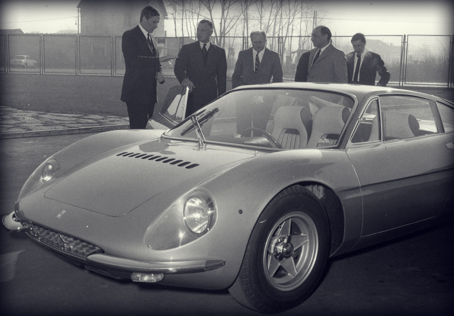 1966 Ferrari 365 P ("P" for prototipo), a tre poste (3-seater) guido centrale (centre drivers seat). This vehicle was the second of only two prototypes made, both one of the first designs made by Pininfarinas newly appointed chairman Sergio Pininfarina (1926–2012). This is chassis #8815,[1] which was commissioned by newly appointed head of FIat, Gianni Agnelli (1921–2003). From left: Mike Parkes (of Ferrari), Gianni Agnelli, Giovanni Nasi (of Fiat, Agnelli's cousin), Renzo Carli (of Pininfarina), and Sergio Pininfarina.